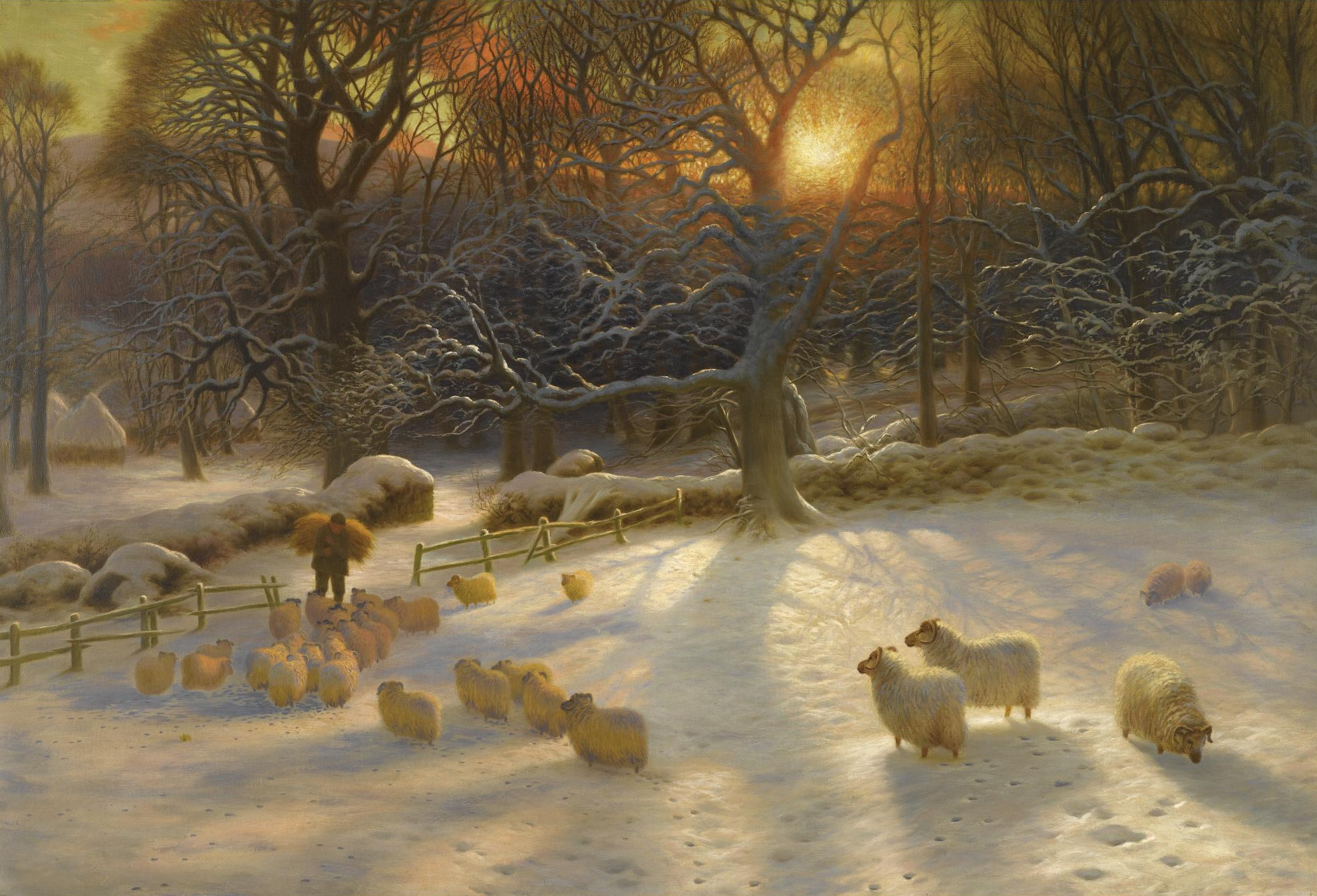 "Beneath The Snow Encumbered Branches" - was originally uploaded to commons as "The shortening winter's day is near a close", but that was an incorrect title.